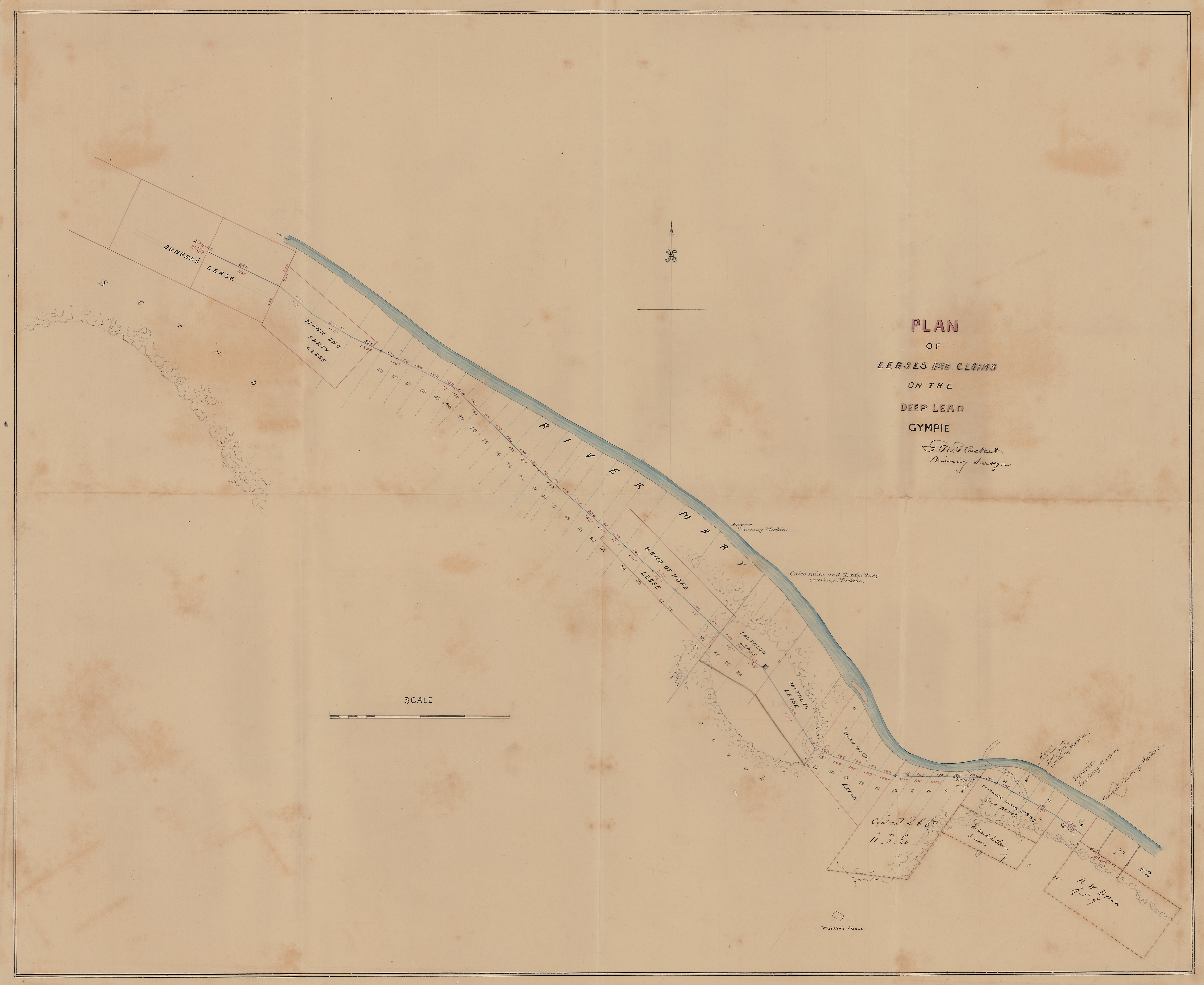 Plan of Leases and Claims on the Deep Lead, Gympie, 1869